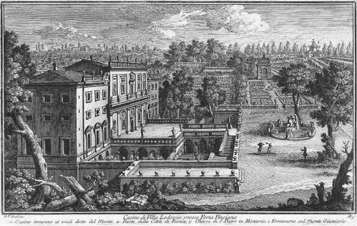 1) Casino del Monte; 2) part of Rome; 3) S. Pietro in Montorio and Fontanone sul Monte Gianicolo